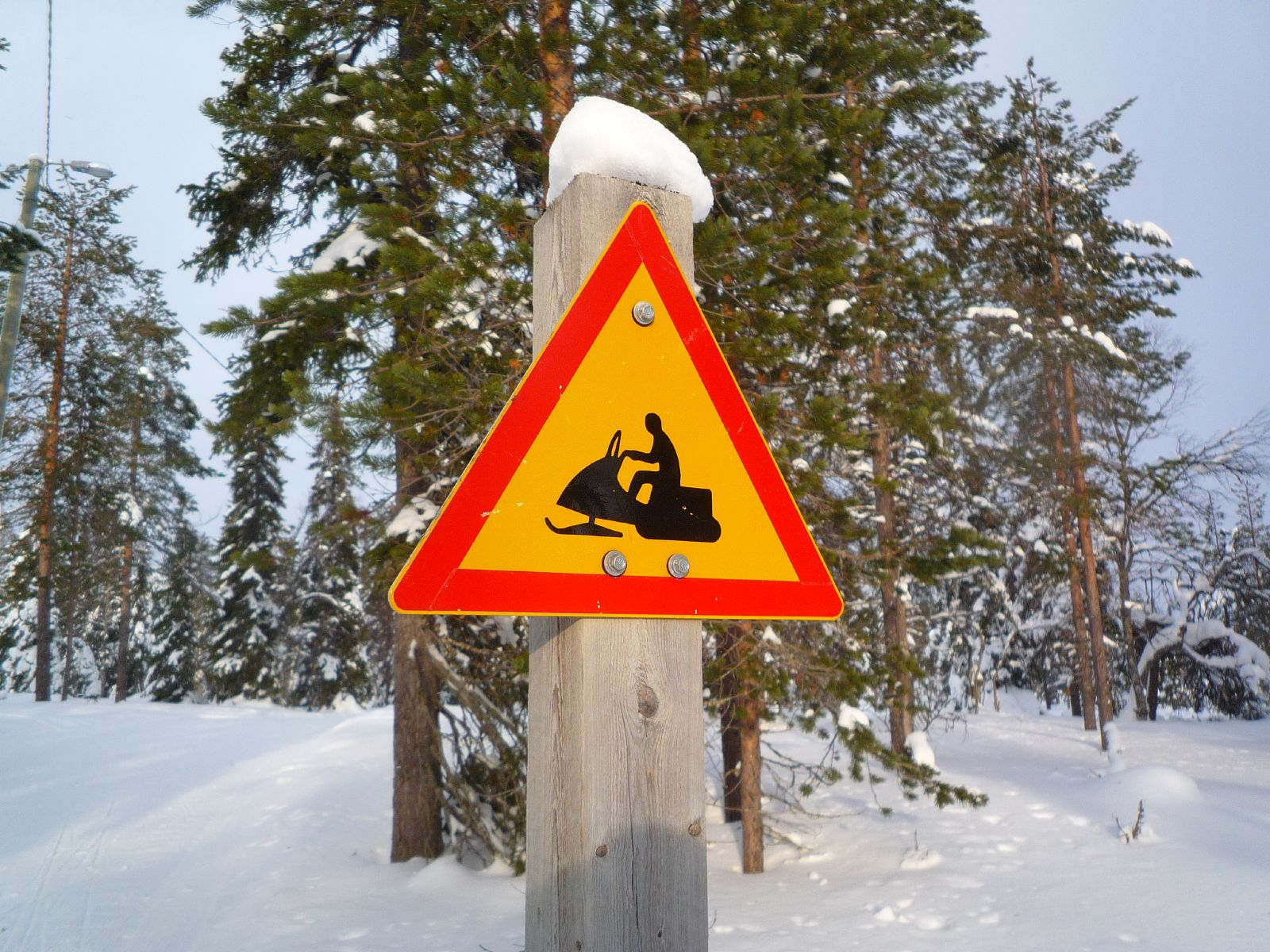 Watch out for Snowmobiles